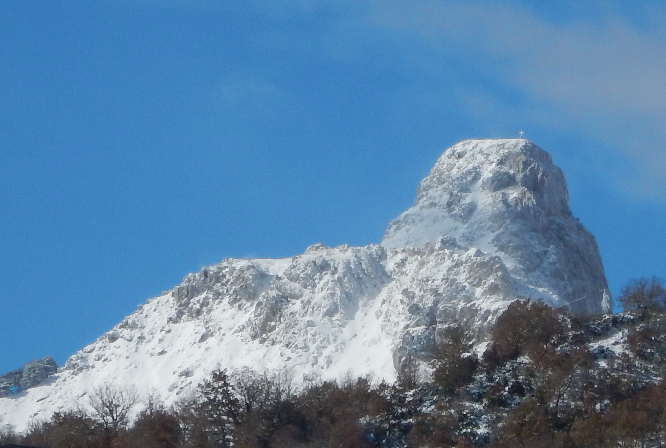 the Rocca Salvatesta called also the Matterhorn of Sicily